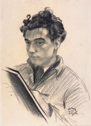 Zelfportret van de tekenaar Leo Kok uit 1944